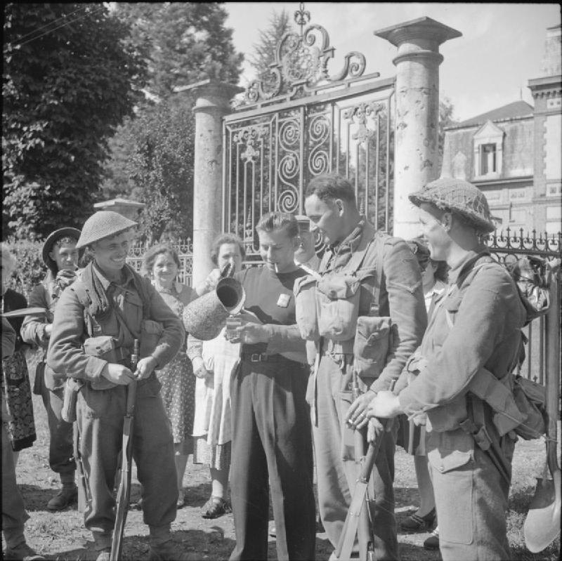 The British Army in North-west Europe 1944-45 Men of the Essex Regiment chatting with local people in Cormeilles, 26 August 1944.